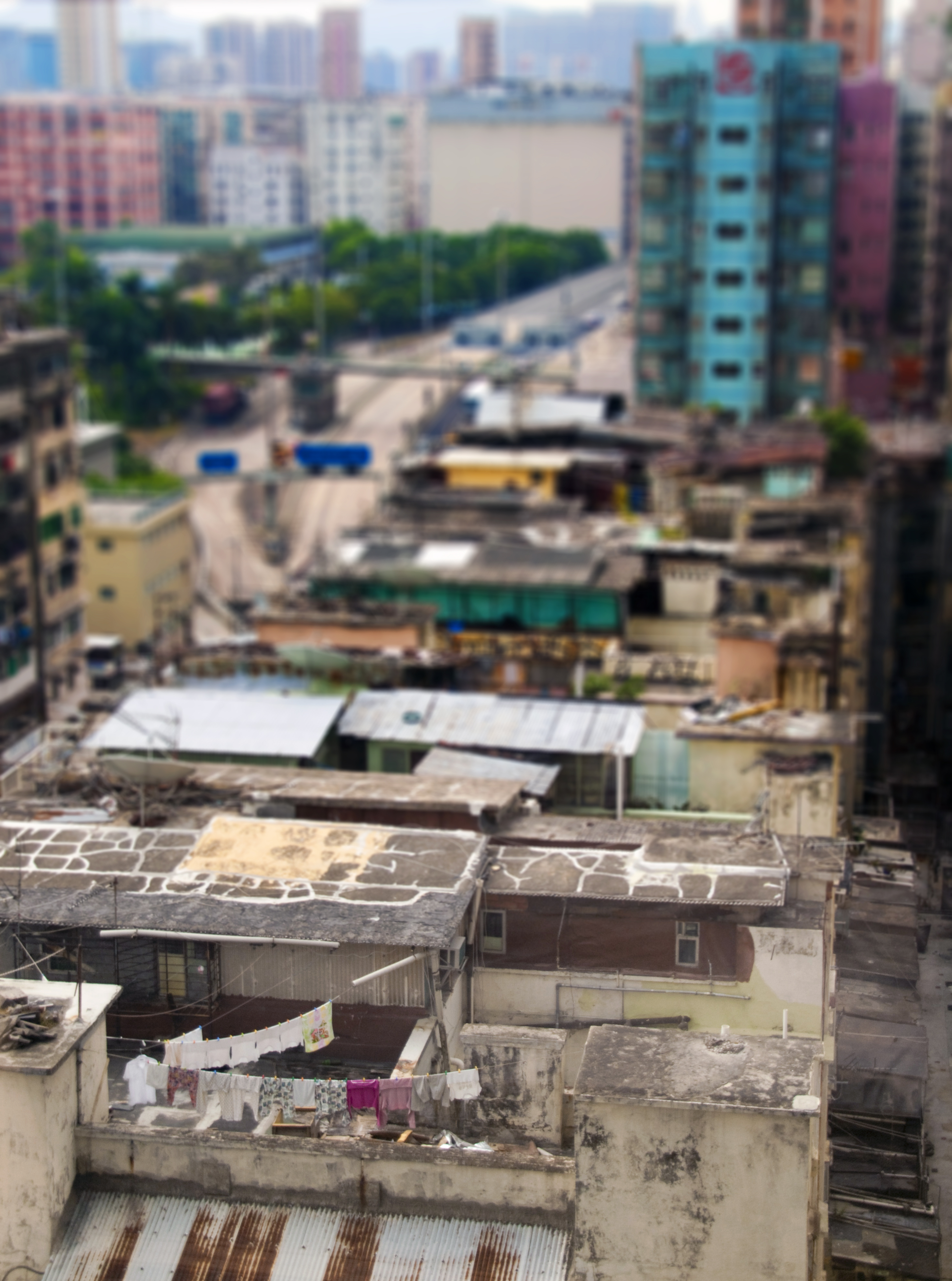 View of roof tops in Hong Kong. Taken near former Kai Tak Airport on the Tokwawan district in Kowloon.